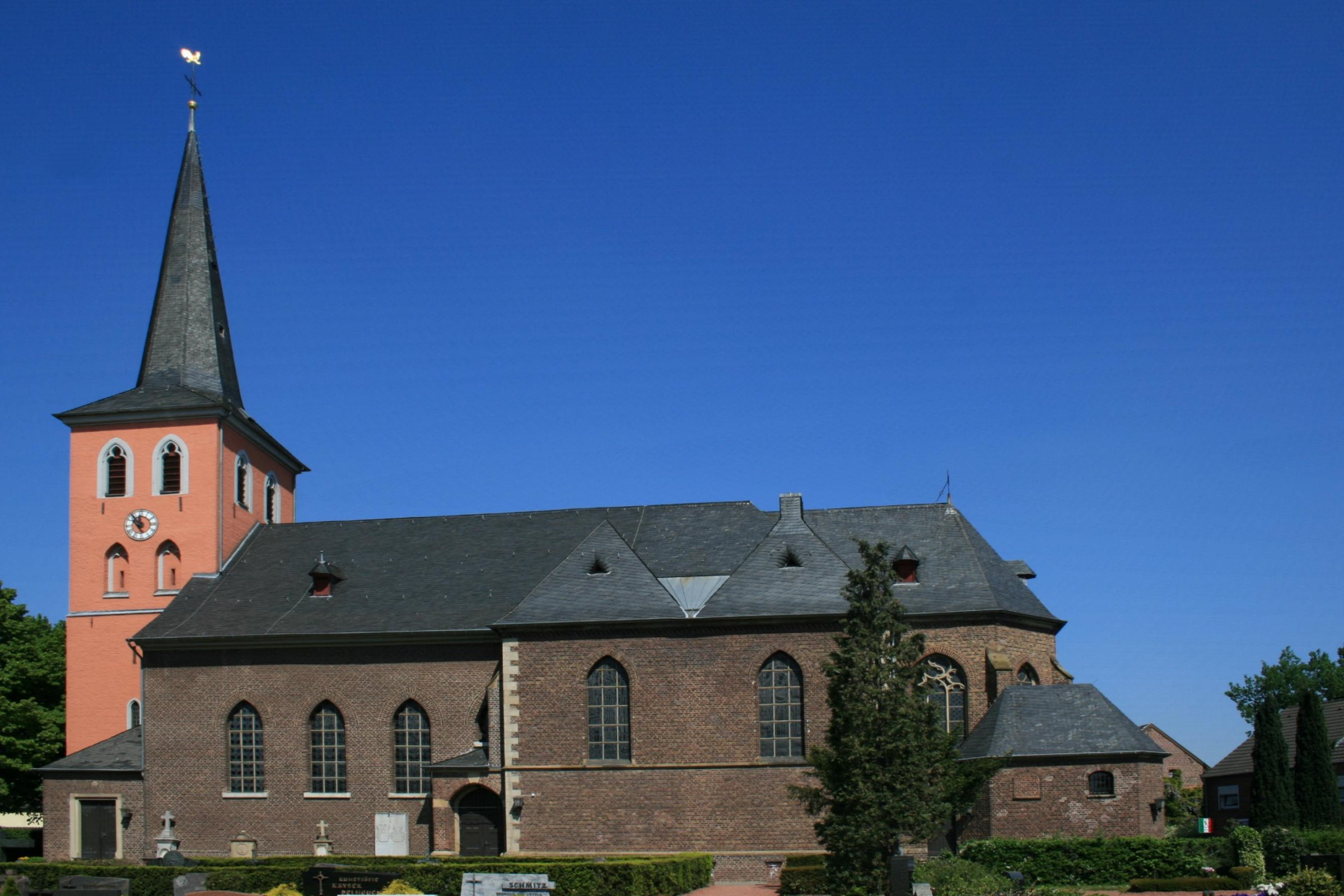 Cultural heritage monument No. 14 in Niederzier